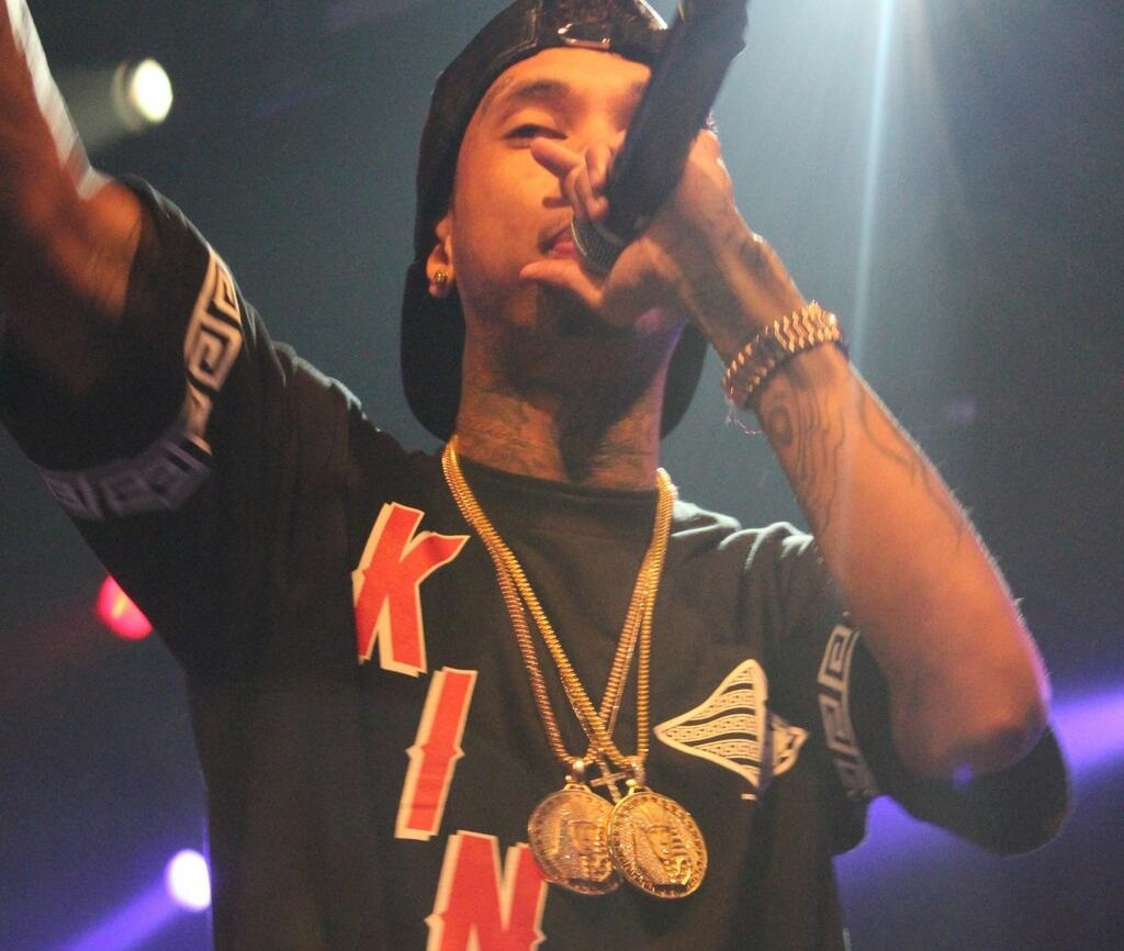 Tyga performing live in 2013